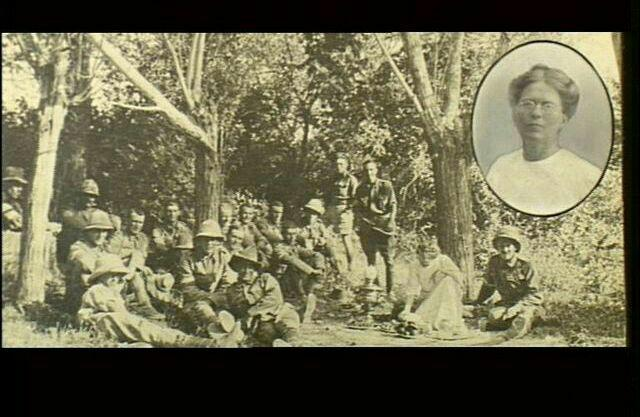 Kermanshah, Mesopotamia. 1918-05. Australian relief members of No. 9 (New Zealand) Station, 1st Wireless Signal Squadron, Mesopotamian Expeditionary Force, being entertained at afternoon tea in her garden by American medical missionary, Doctor Blanche Stead. She is serving the tea and food on a cloth on the ground while the soldiers sit nearby. Oval insert in the photograph is a head and shoulders portrait of Mrs Stead, who with her husband, Reverend F. M. Stead, had been a missionary at Kermanshah since 1902. (Donor E. Keast Burke)